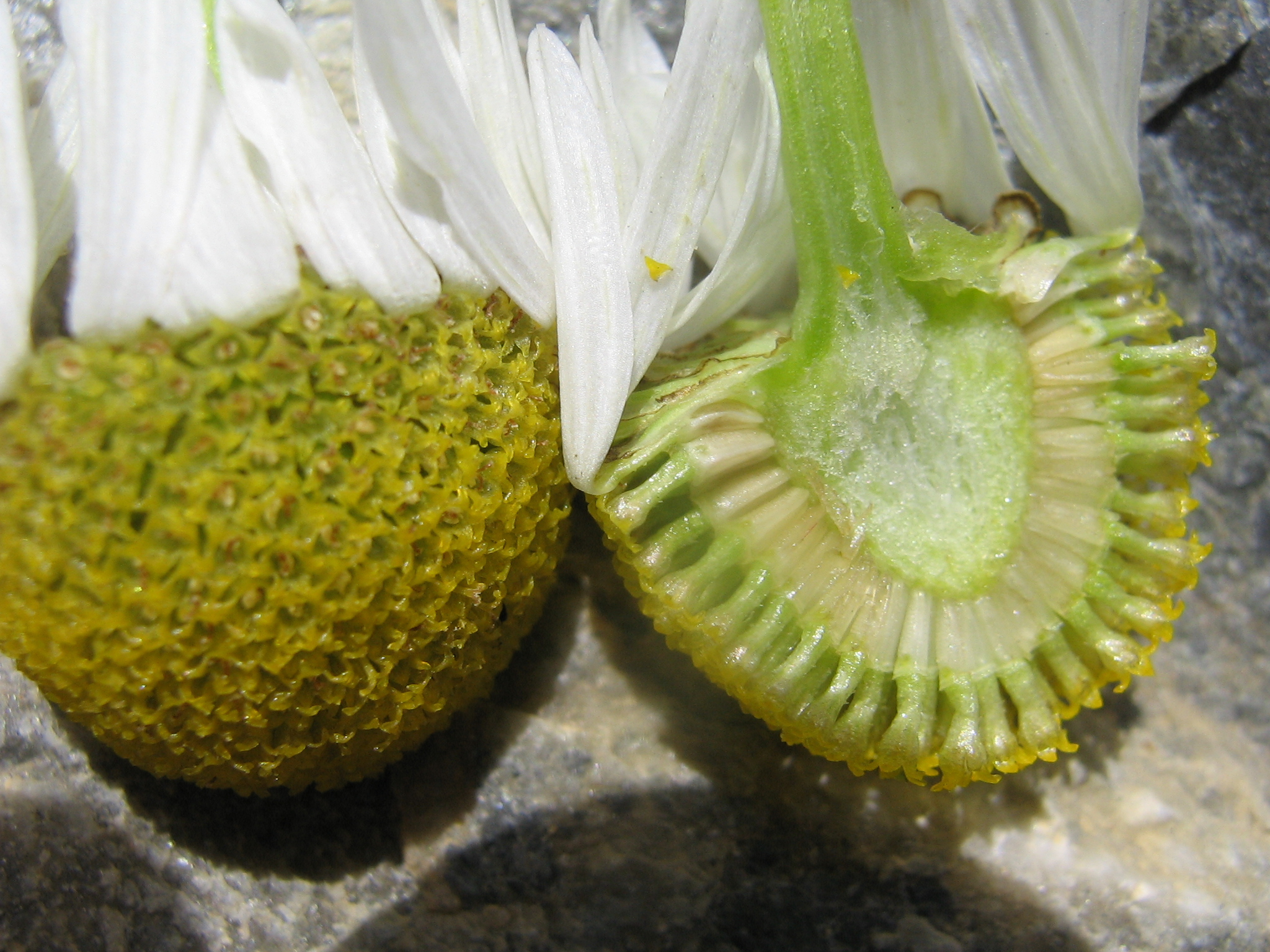 Cut through a blossom of a Tripleurospermum perforatum /Chamomile.